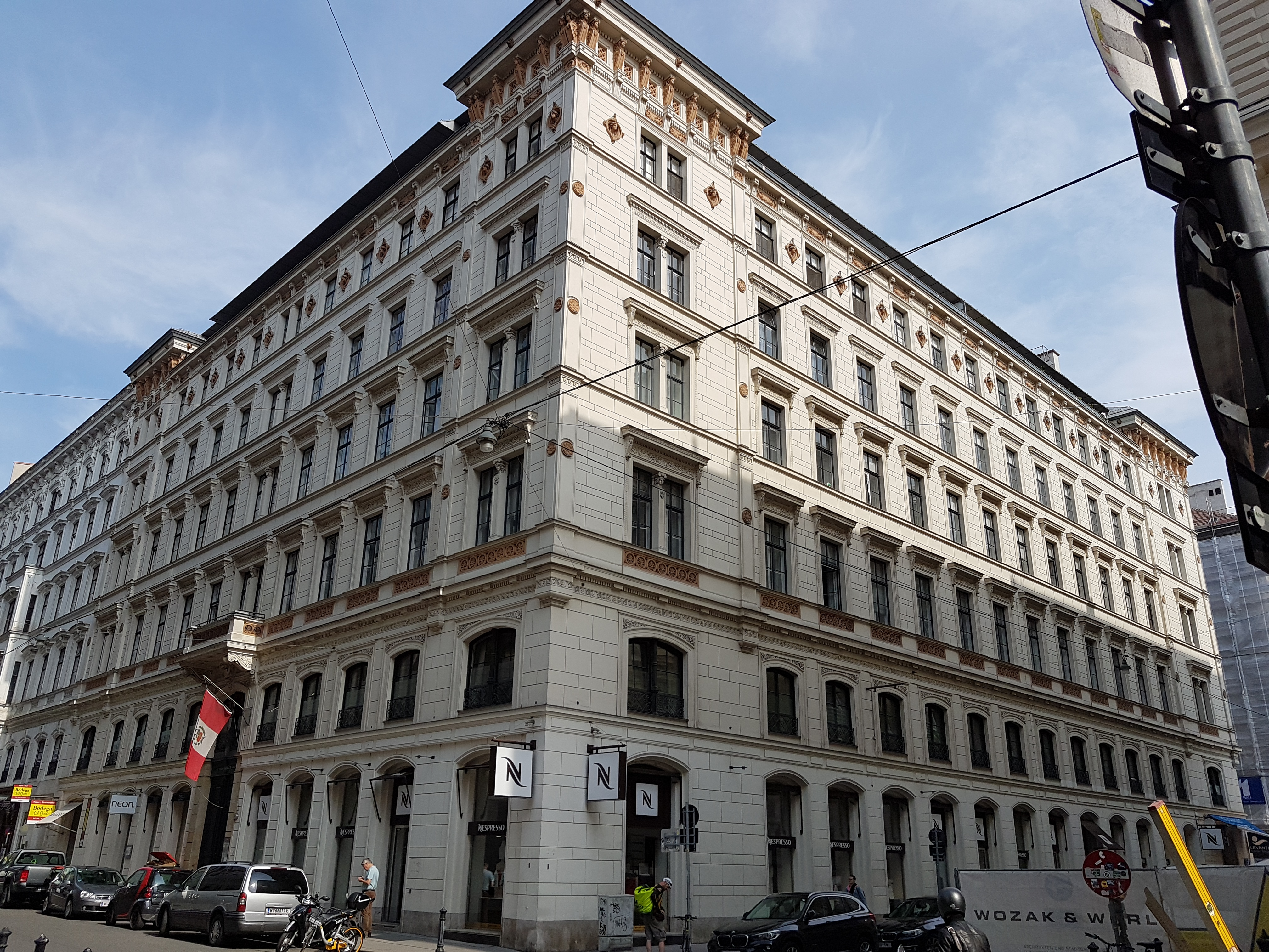 Mahlerstraße 7, Vienna. In the building the Peruvian Embassy in Austria is situated.